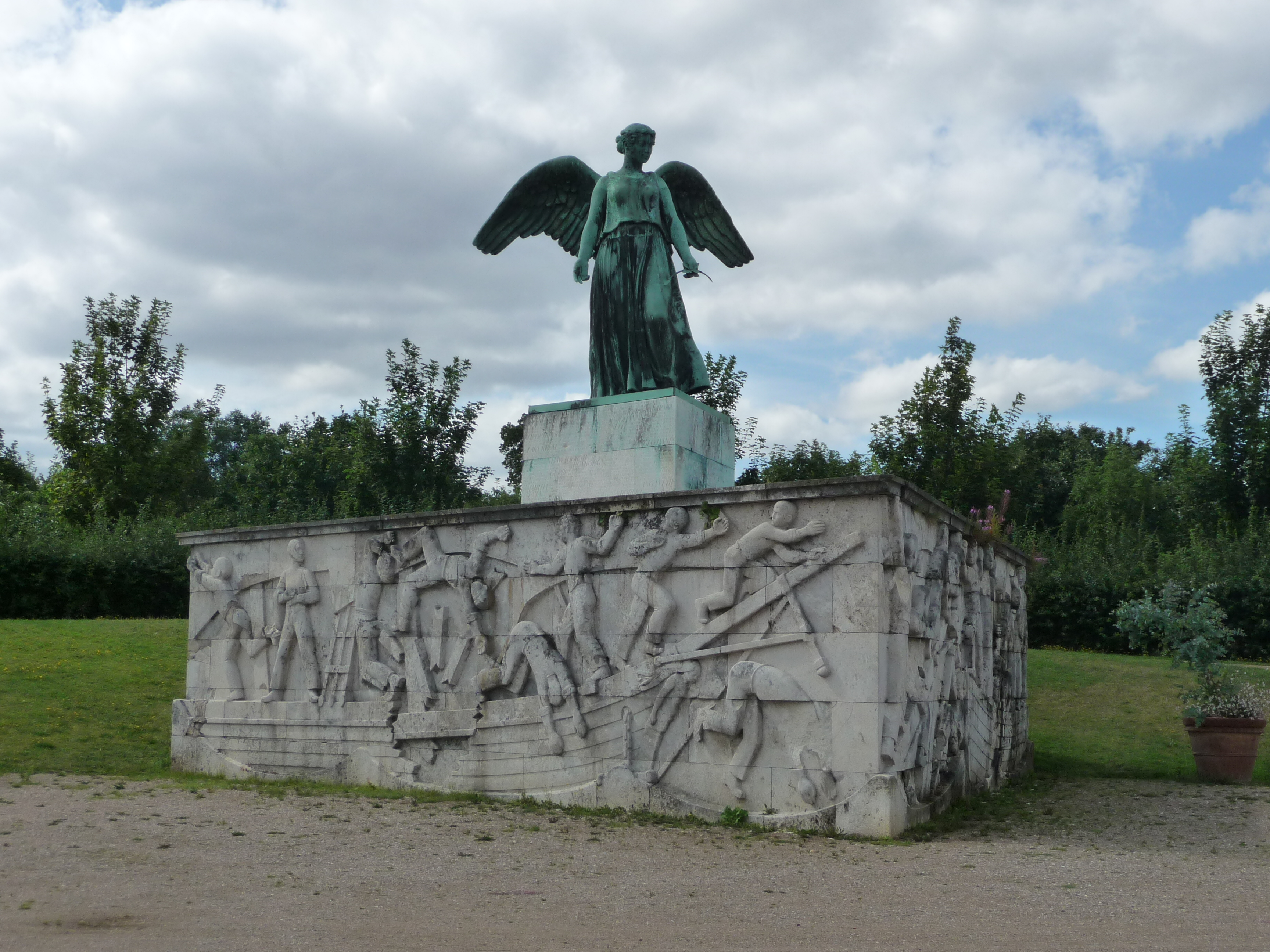 Søfartsmonumentet (Maritime Monument) at Langelinie in Copenhagen, Denmark. Designed by Svend Rathsack